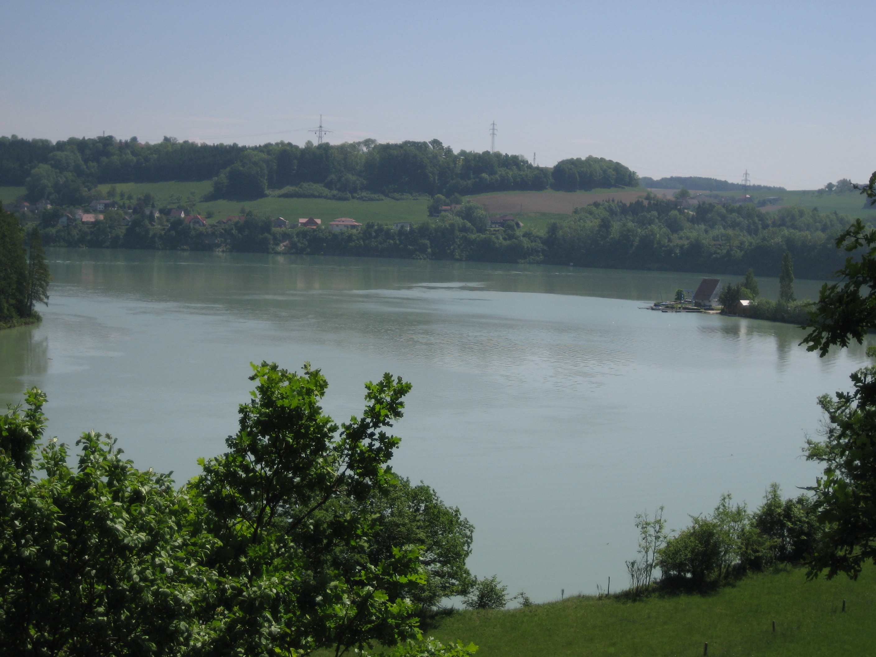 Enns river, near the Hydroelectric power plant "Staning", between the villages Dietach (Upper Austria) and Haidershofen (Lower Austria). Austria, Europe.